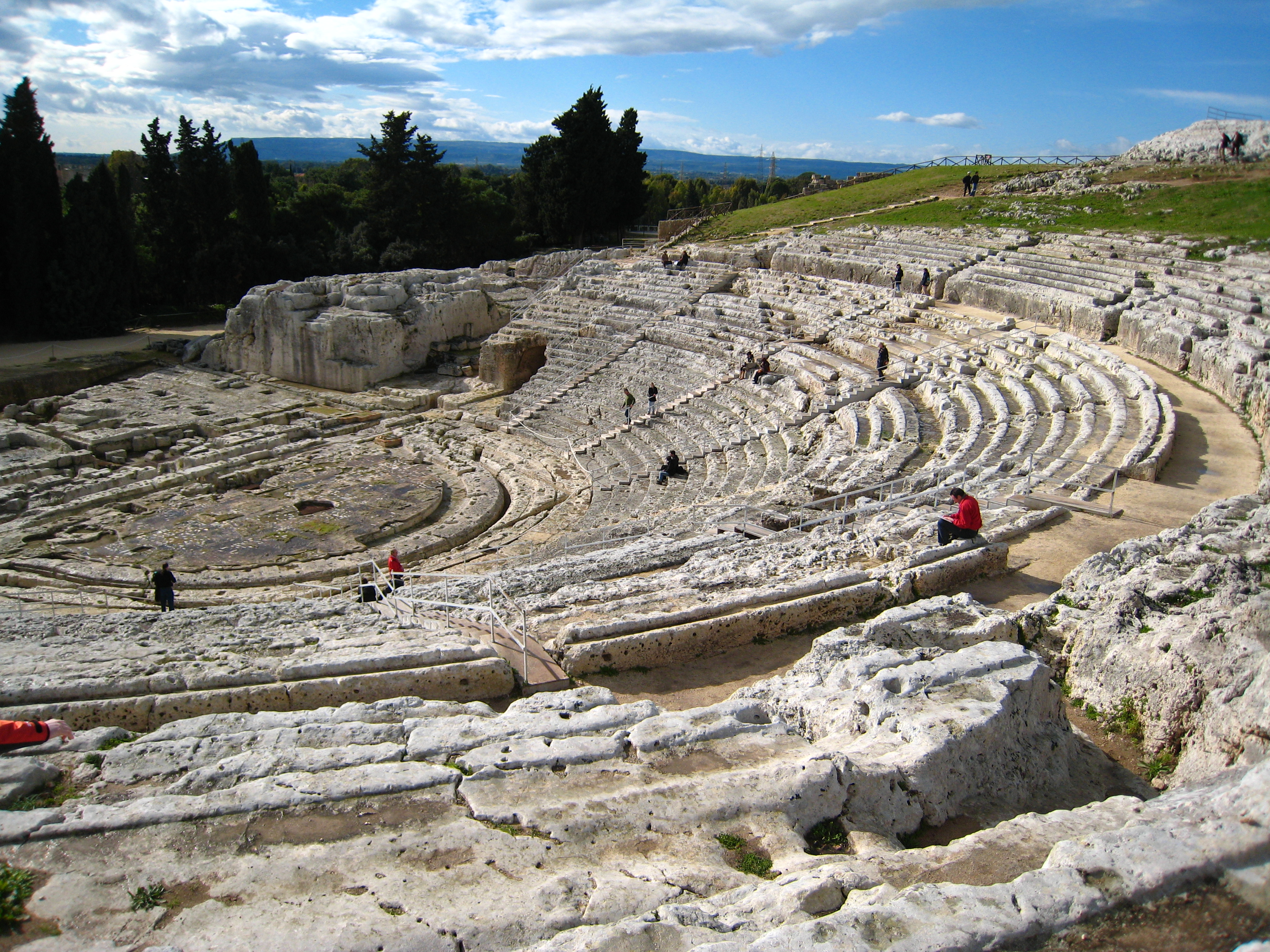 The Ancient Greek theatre of Syracuse